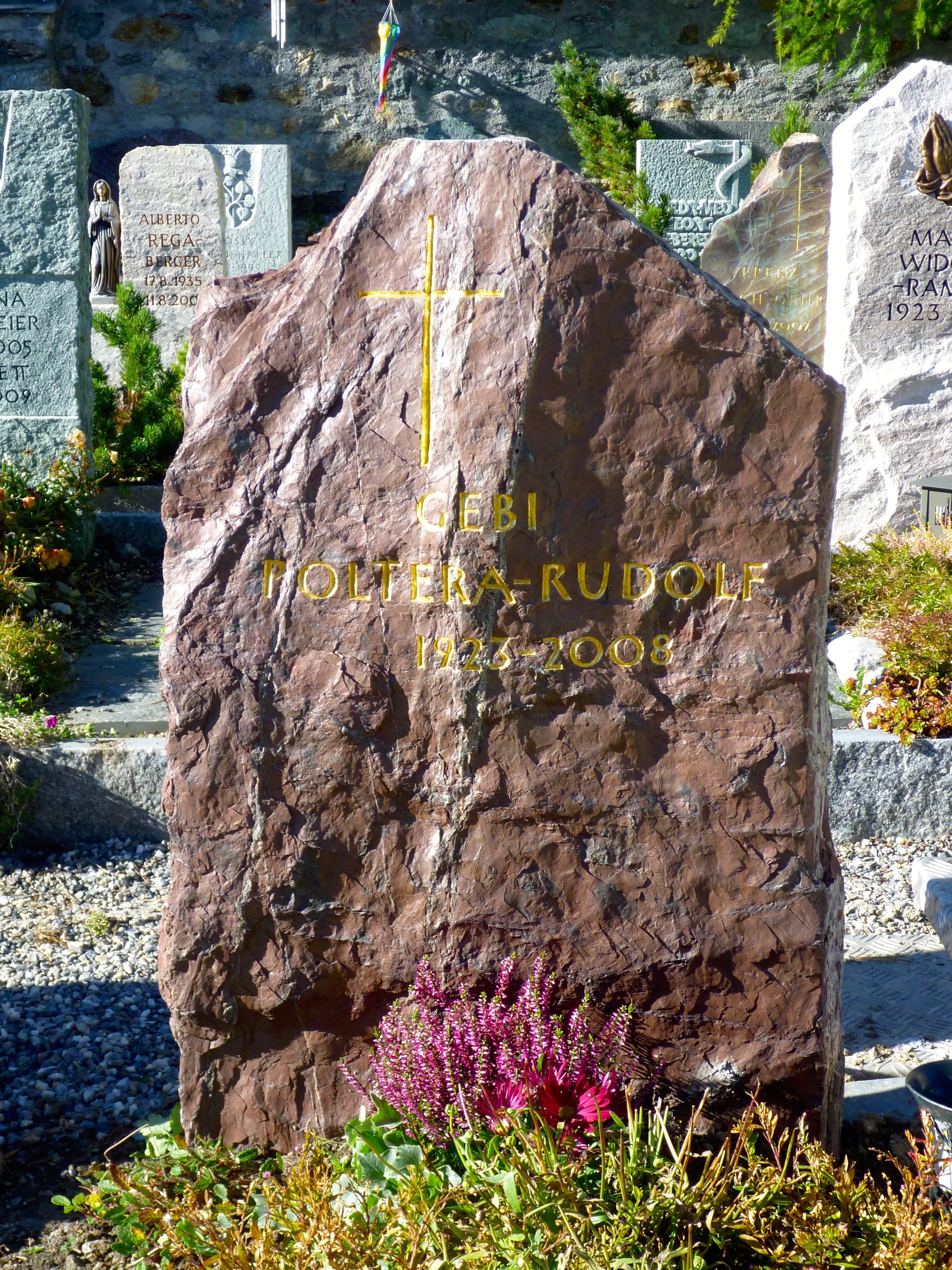 Grave of swiss icehockey player Gebi Poltera at Arosa/Switzerland